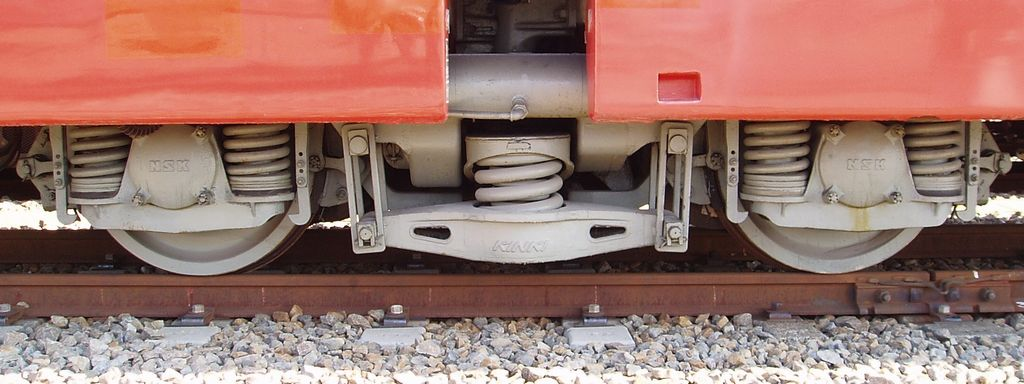 Jacobs bogie truck KD17 of Odakyu Electric Railway type 3000. 小田急3000形SEの連接台車（電動台車KD-17） 2007.10.21 Photo by Cassiopeia_sweet.